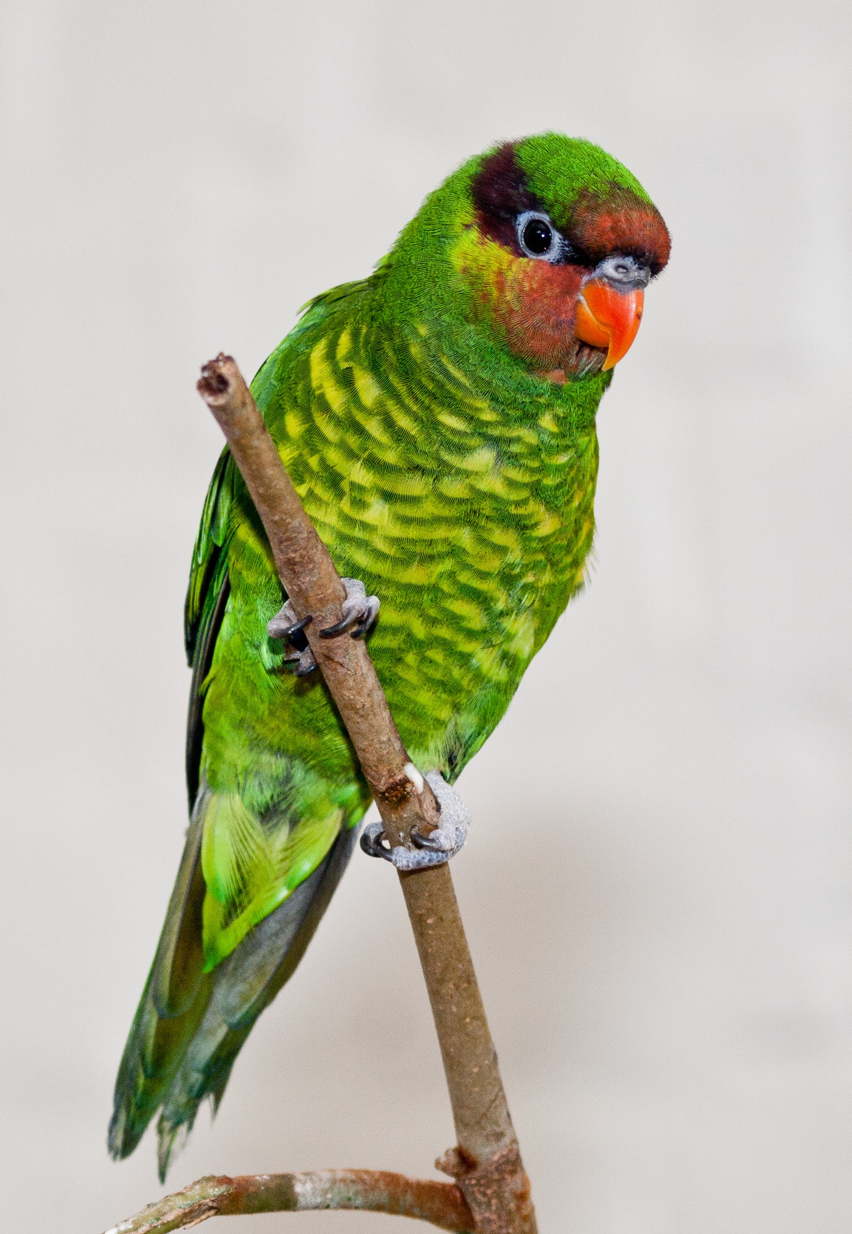 A Mindanao Lorikeet in Blackburn Pavilion at at London Zoo, England.